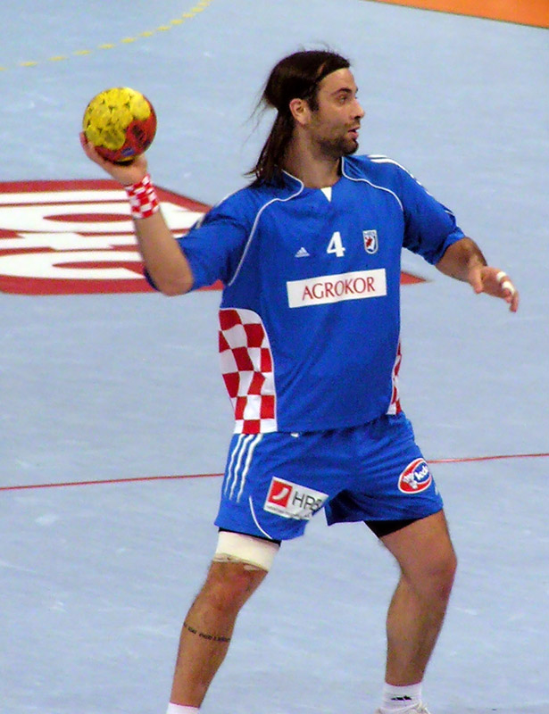 Ivano Balić, on January 24th 2007 in Mannheim , SAP-Arena (Germany), during the Handball World Championchip game Denmark - Croatia (26:28)